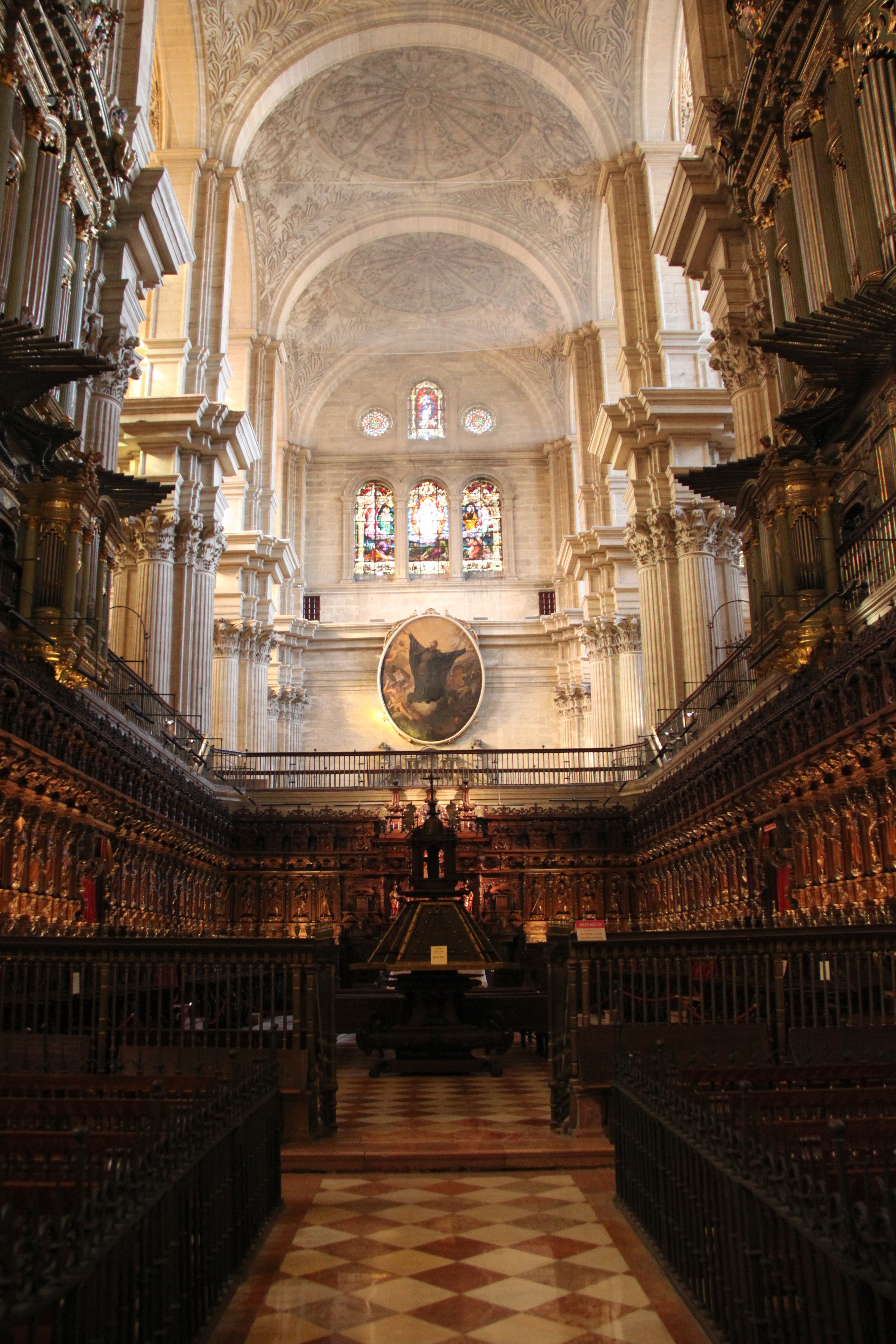 Malaga Cathedral, Spain.